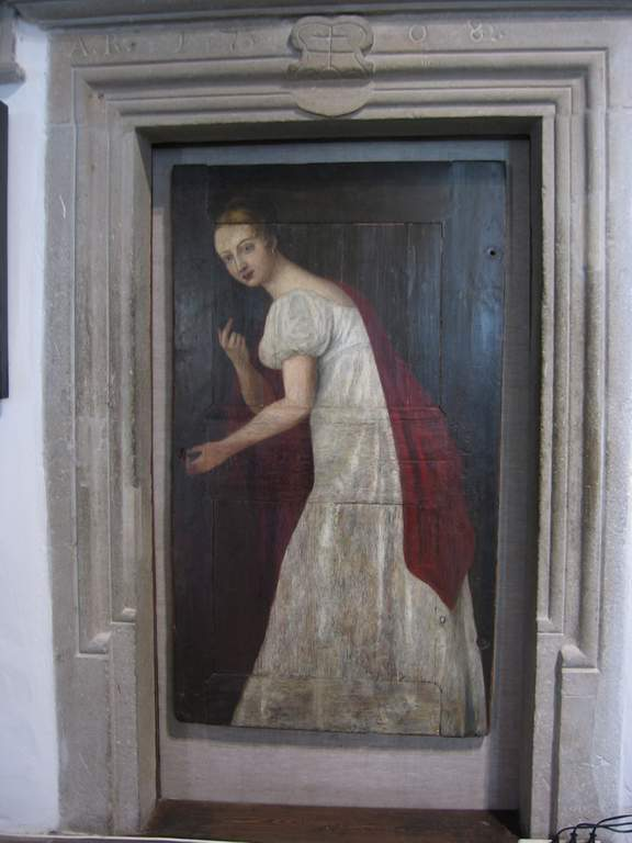 Counterfeit of the White Lady of Levoca inside the old townhall.